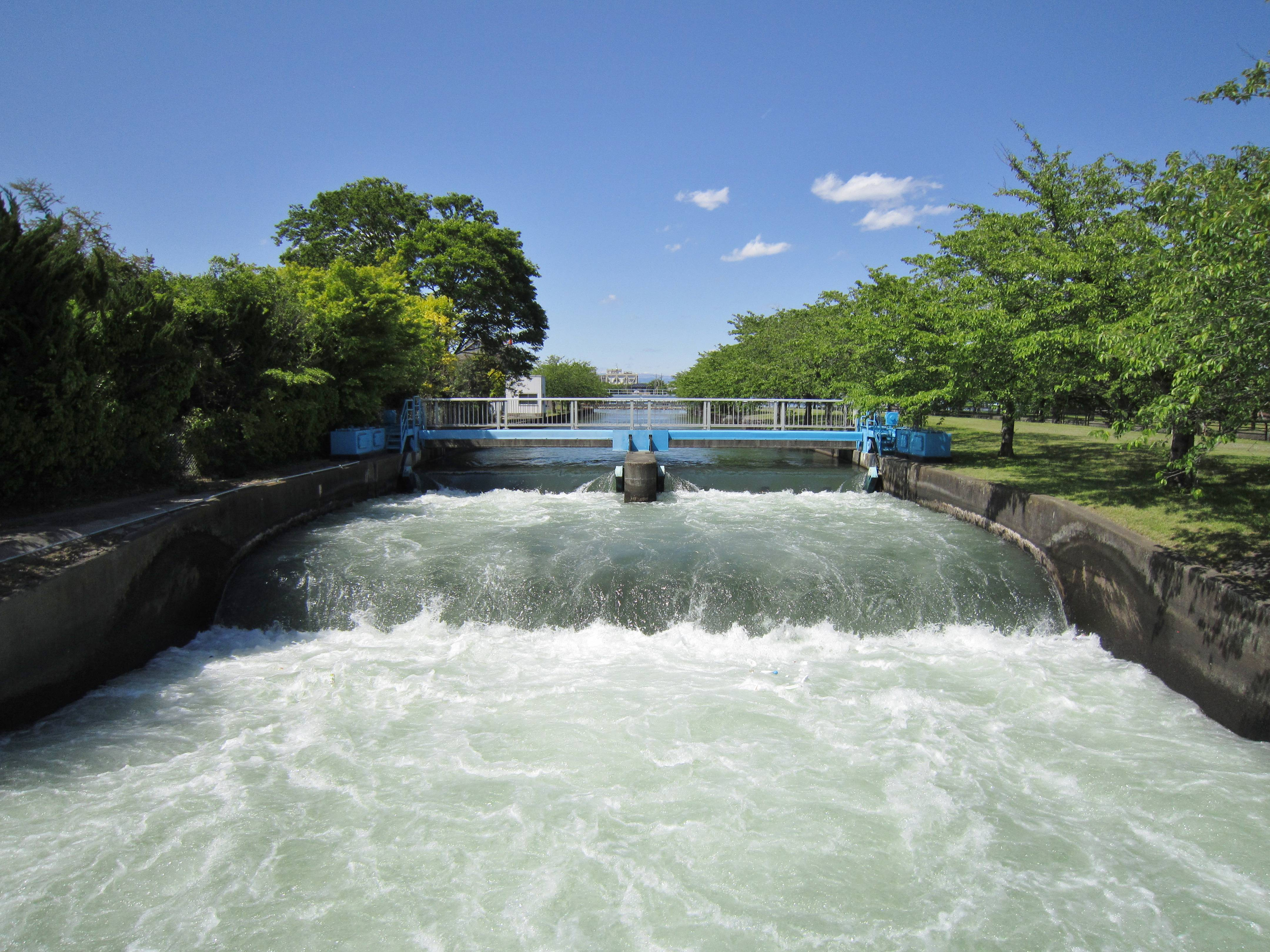 Tone Diversion Weir Minumadai Canal.